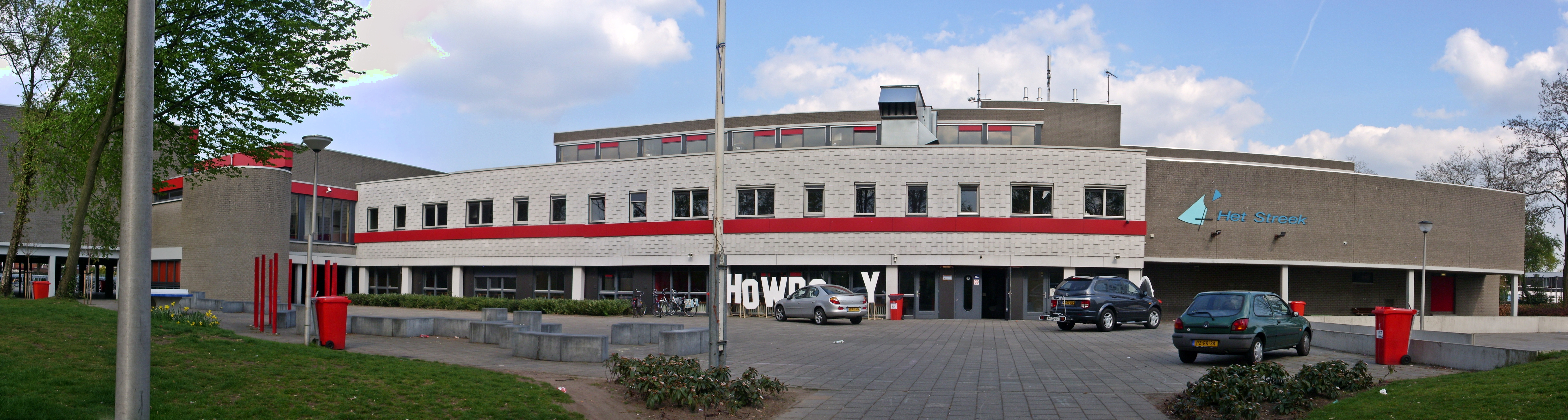 Panoramic view from the western side with the main entrance of the Dutch school "Het Streek" in Ede, Gelderland, Nederlands. (watch my camera position with Google StreetView) This JPG graphic was created with Hugin.